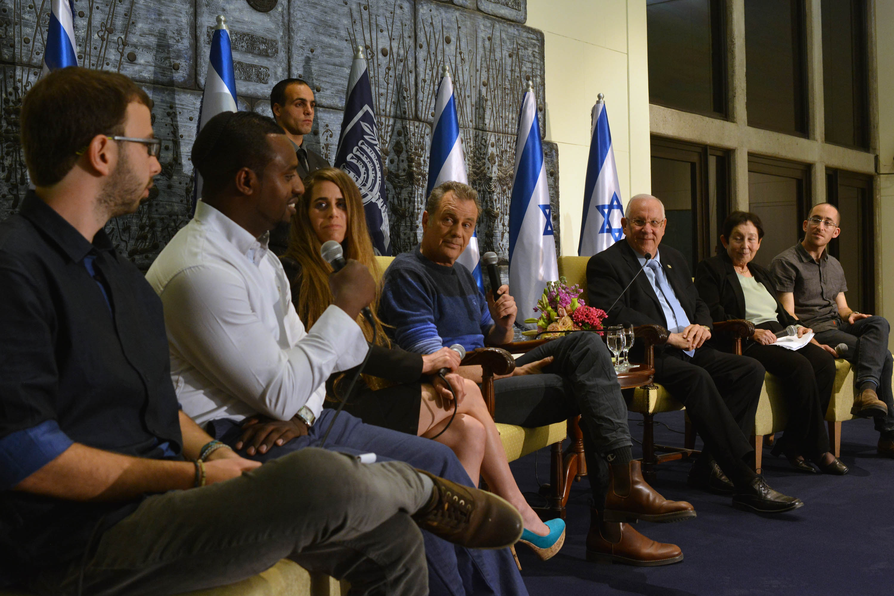 נשיא המדינה ראובן רובי ריבלין מארח במשכן הנשיא אזרחים למפגש לקראת הבחירות לאחר שהצהירו שאין בכוונתם להצביע. עם מודי בראון ומינה צמחPhoto by Kobi Gideon / GPO